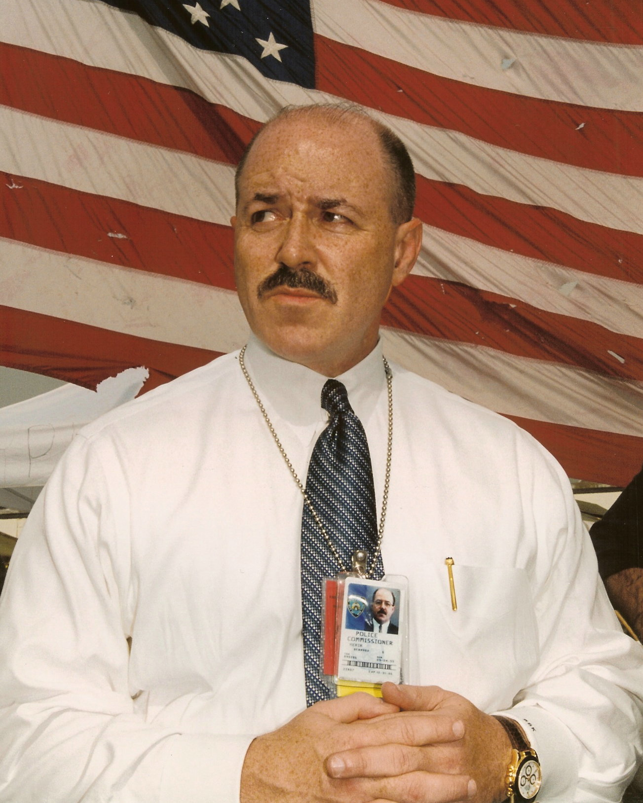 NYPD Police Commissioner Bernard Kerik speaking at a press conference concerning crime scene evidence collection from the WTC site.